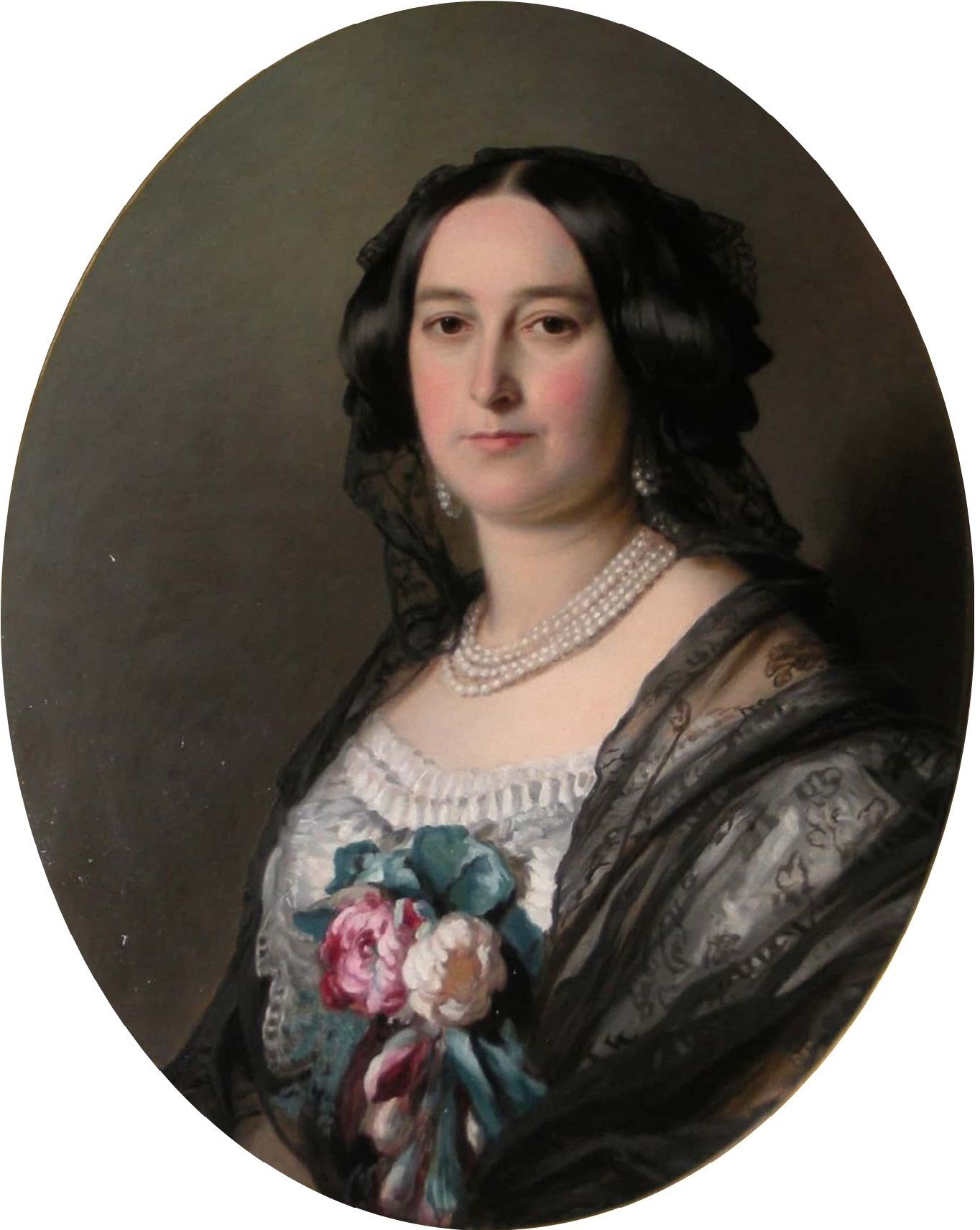 Portrait of Feodora, Princess of Hohenlohe-Langenburg